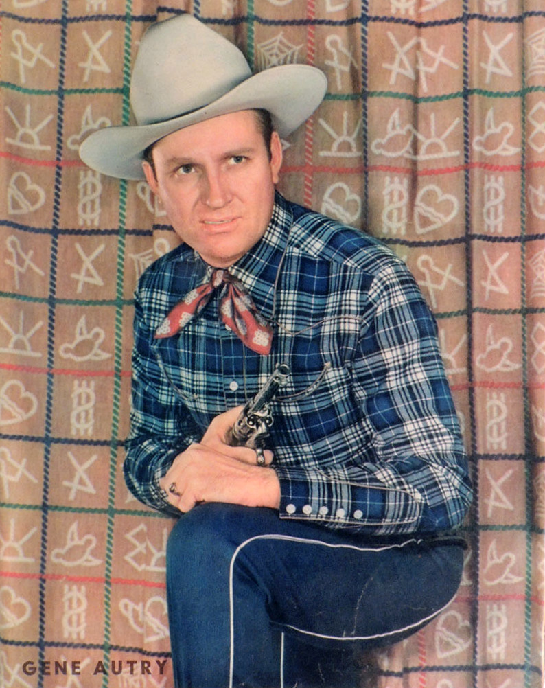 Photo of Gene Autry from the cover of a 1942 New York Sunday News magazine. The magazine also contains four color photos of Kay Kyser, Nan Grey, Eve Arden and George Tobias. A search for renewals was done in periodicals for the years 1969 and 1970 There were no listings for New York Daily News or New York Sunday News--the first "New York" listing is for New York Supplement. There's no evidence of renewal for the newspaper.